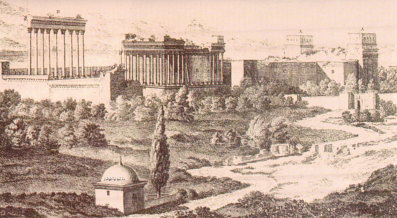 Khawla bent al-hussein tomb in Baalbek, Lebanon